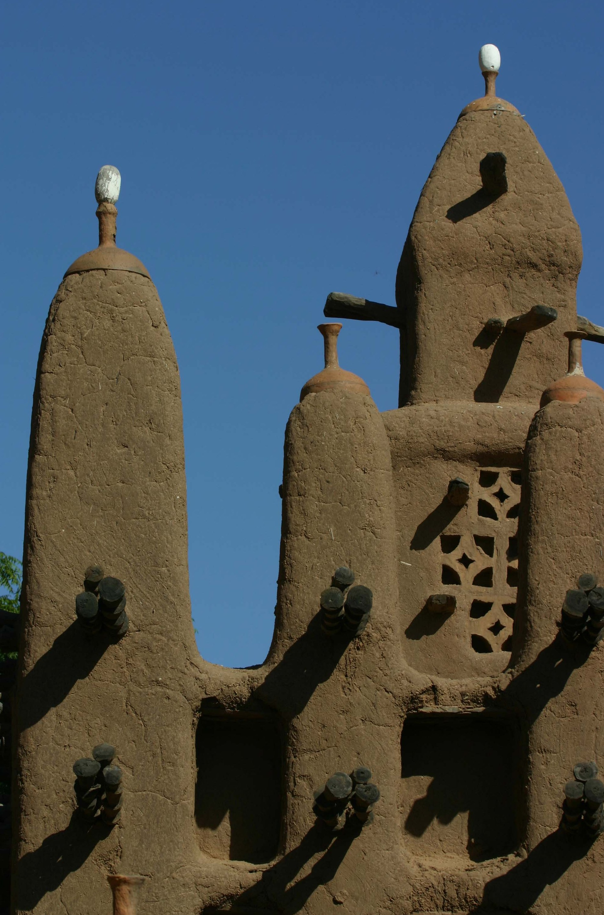 Early morning shot in Kani Kombolé, Pays Dogon.